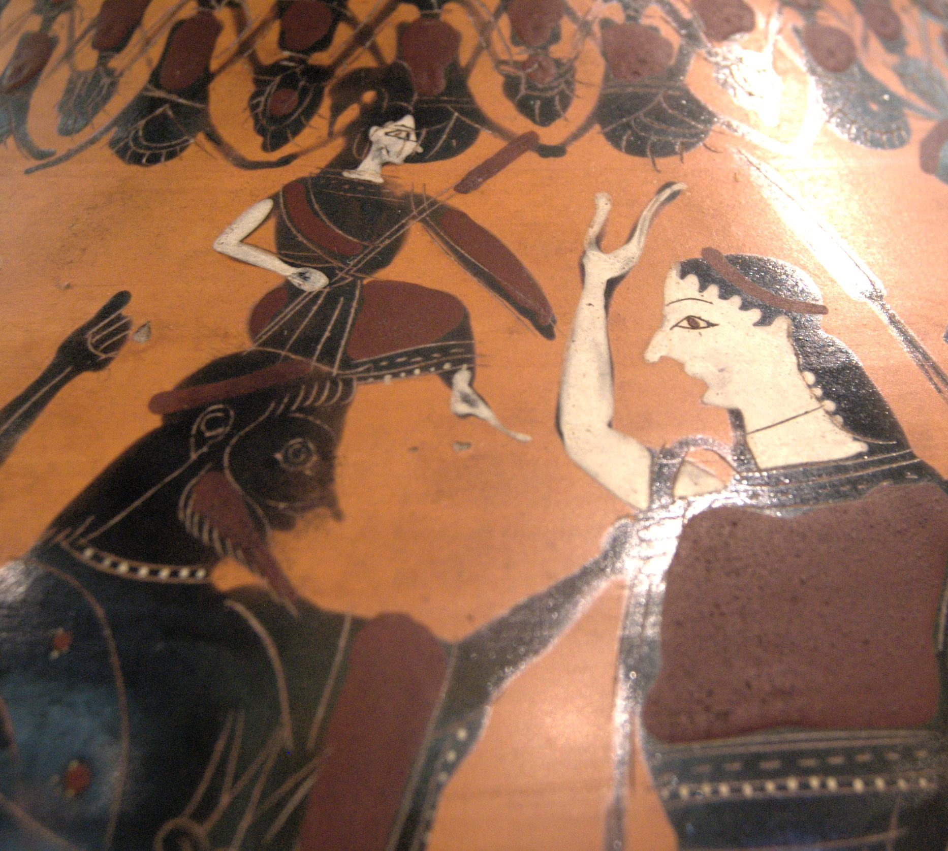 Detail of the side A: birth of weaponed Athena who emerged from Zeus' head, Eileithyia (?) on the right.